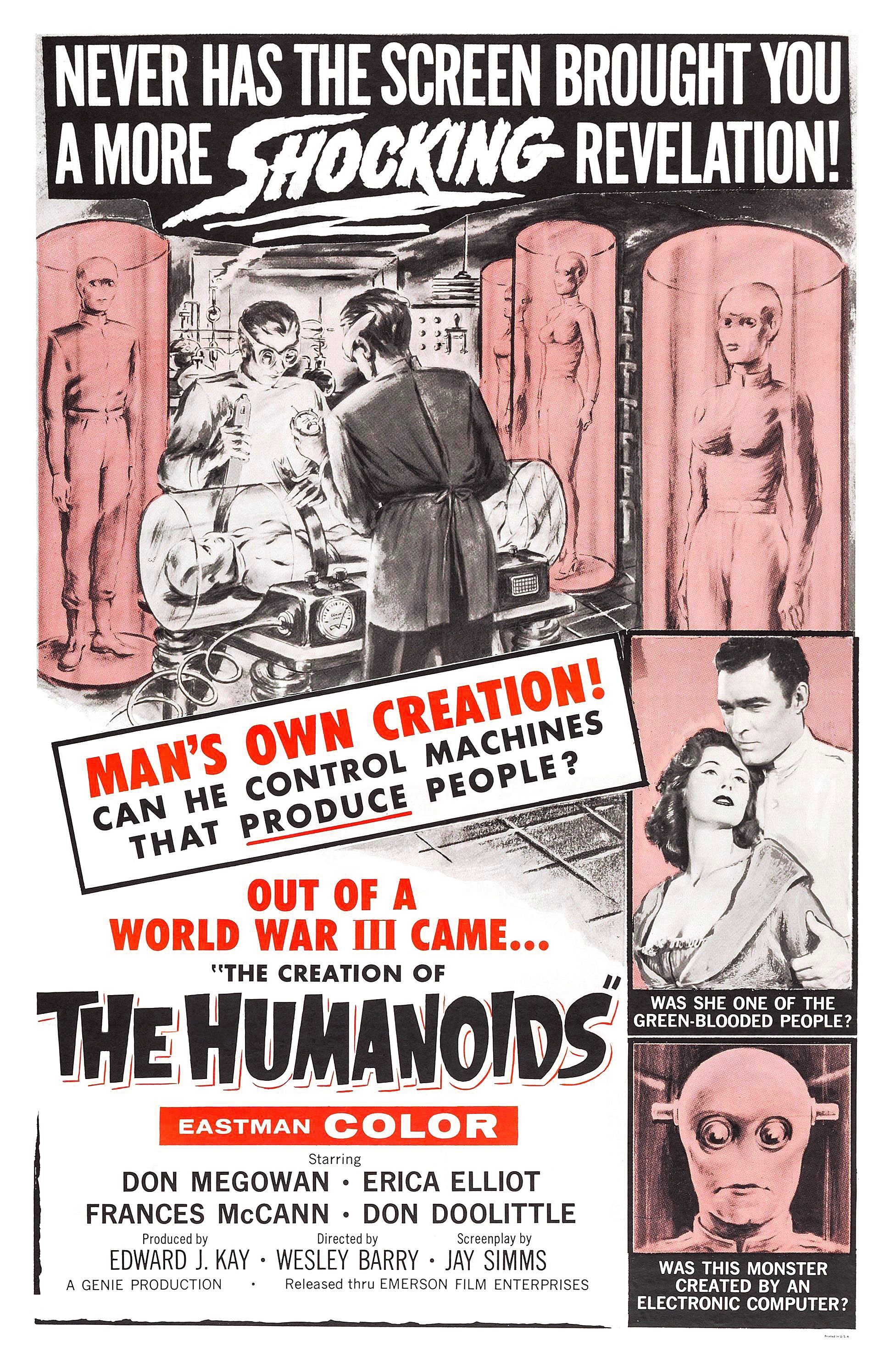 Poster for the 1962 film The Creation of the Humanoids. There are no copyright marks on the item, which can be seen at the link. At bottom right is Printed in USA.